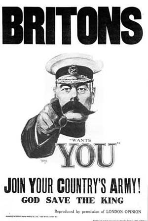 The Forces at Home: The famous recruiting poster: Field Marshal Lord Kitchener's face and pointing finger is headlined 'Britons' and underneath '... wants you. Join your country's army. God save the King'.